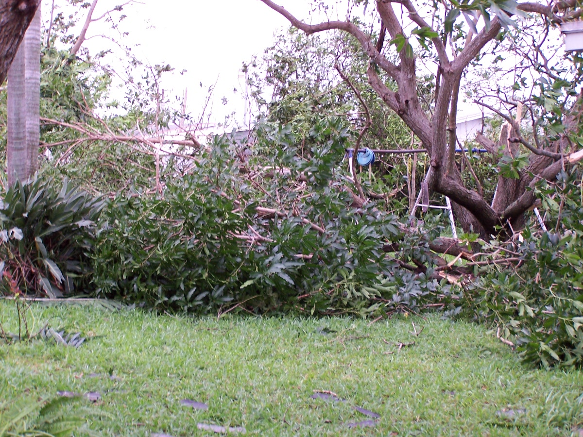 Tree damage from Hurricane Wilma at a home in Palm Springs, Florida